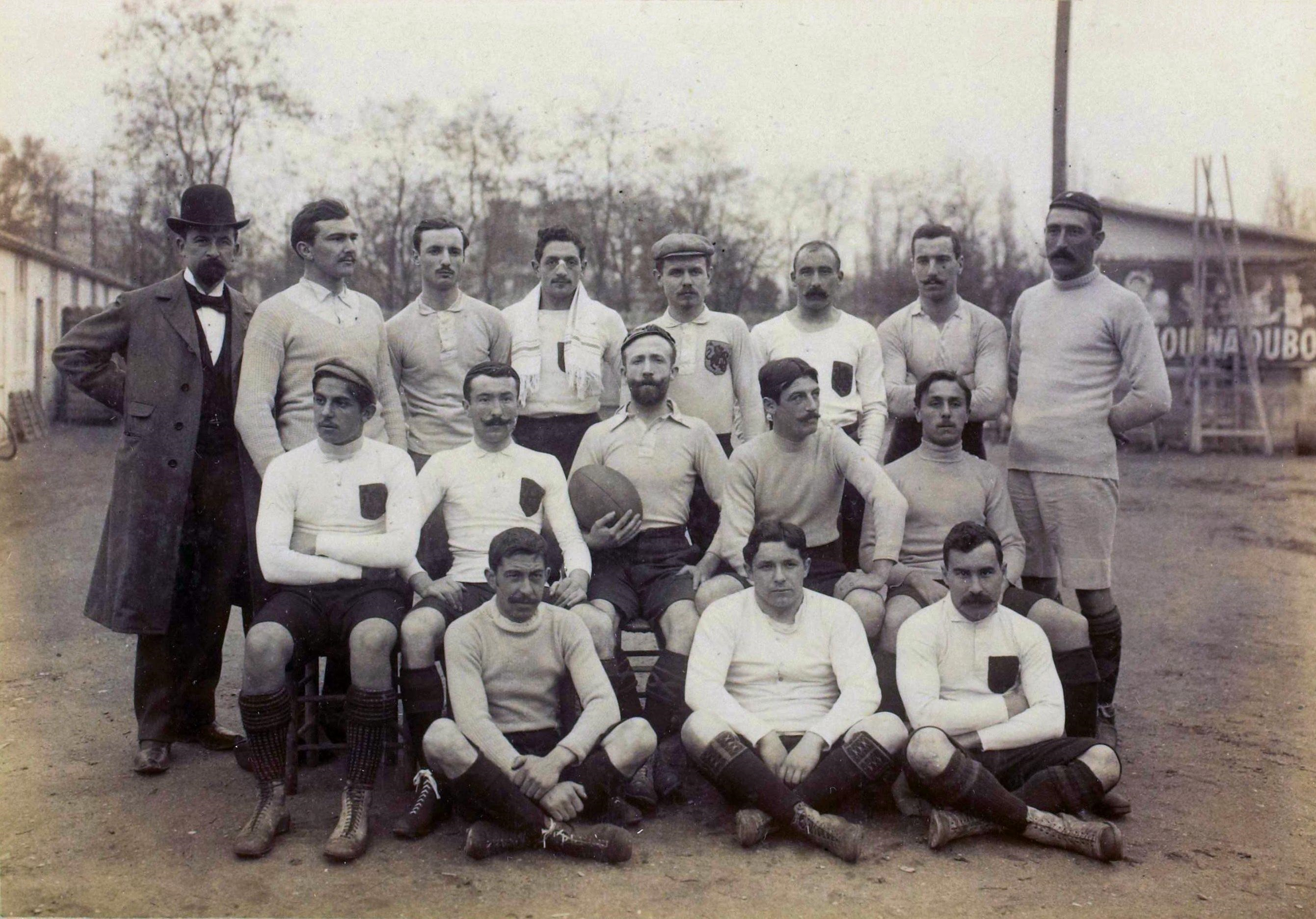 Le Stade bordelais en décembre 1900 - [Collection Jules Beau. Photographie sportive] : T. 12. Années 1899 et 1900 / Jules Beau : F. 40v. Racing-Club de France ; Stade Bordelais, 2 décembre 1900